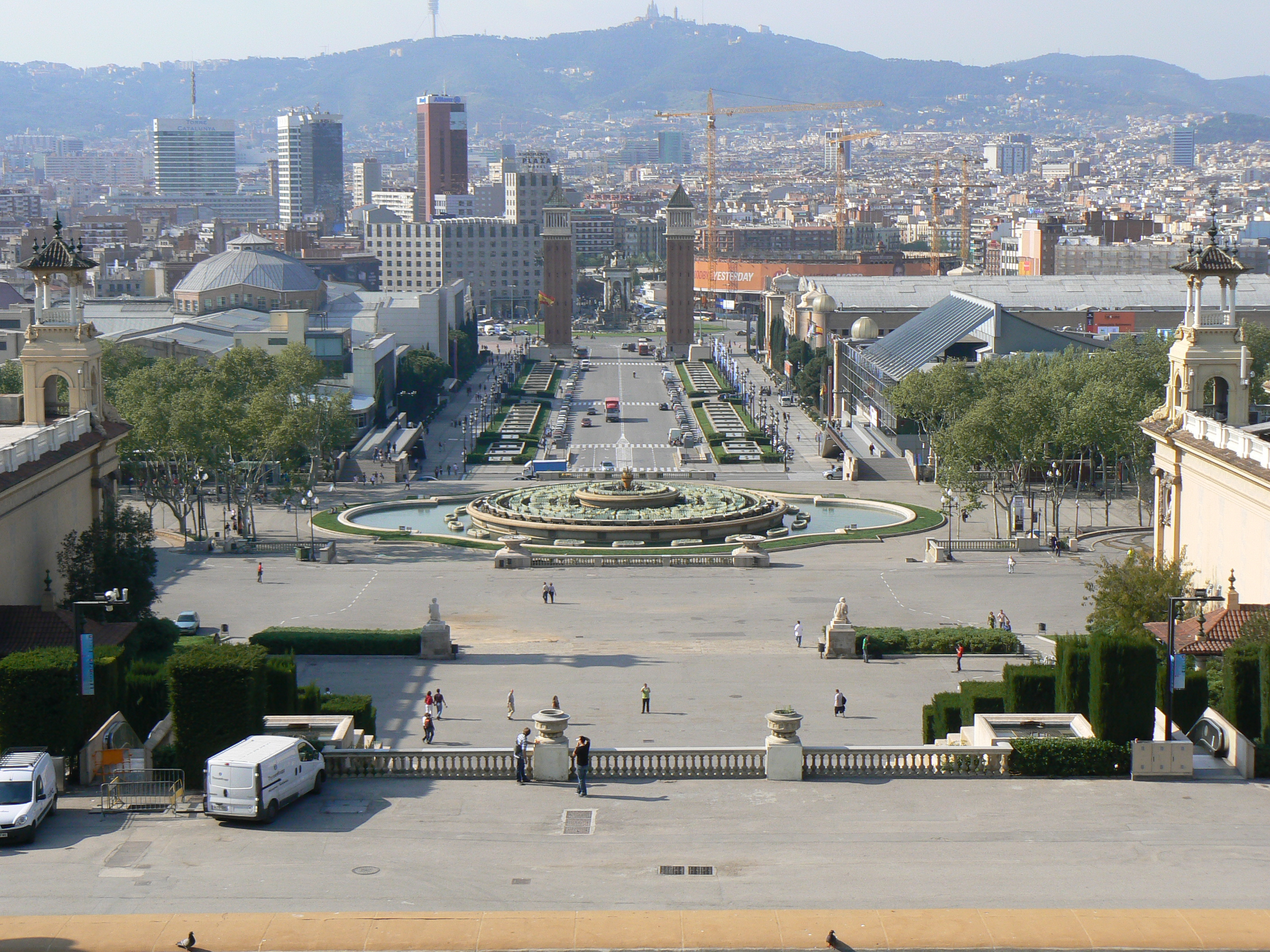 View from Palau Nacional to Plaça Espanya, Barcelona. The "Magic Fountain" in the center.